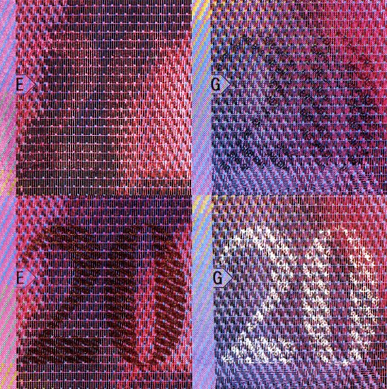 Some security features (Variable colour digits (E) and metallic digits (G)) of the 20 Swiss francs banknote